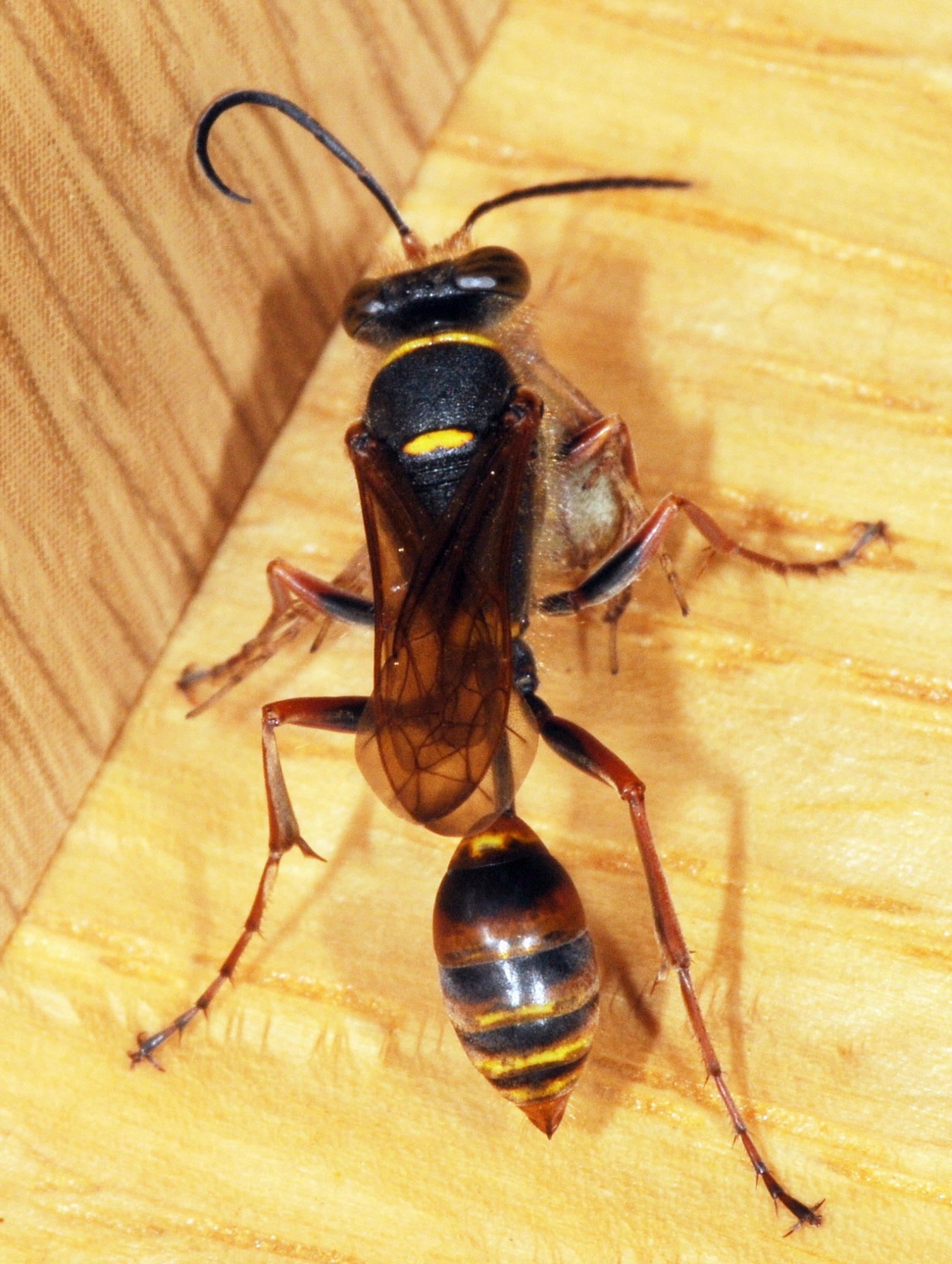 Sceliphron curvatum, in Wiesbaden, Germany